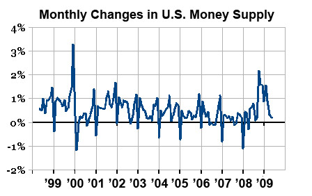 Monthly changes in the currency component of the U.S. money supply as reported by the Federal Reserve at the St. Louis Fed's F.R.E.D. website at: The data was copy/pasted into an Calc spreadsheet, the monthly changes were calculated using a simple formula, then this image was generated from that data.